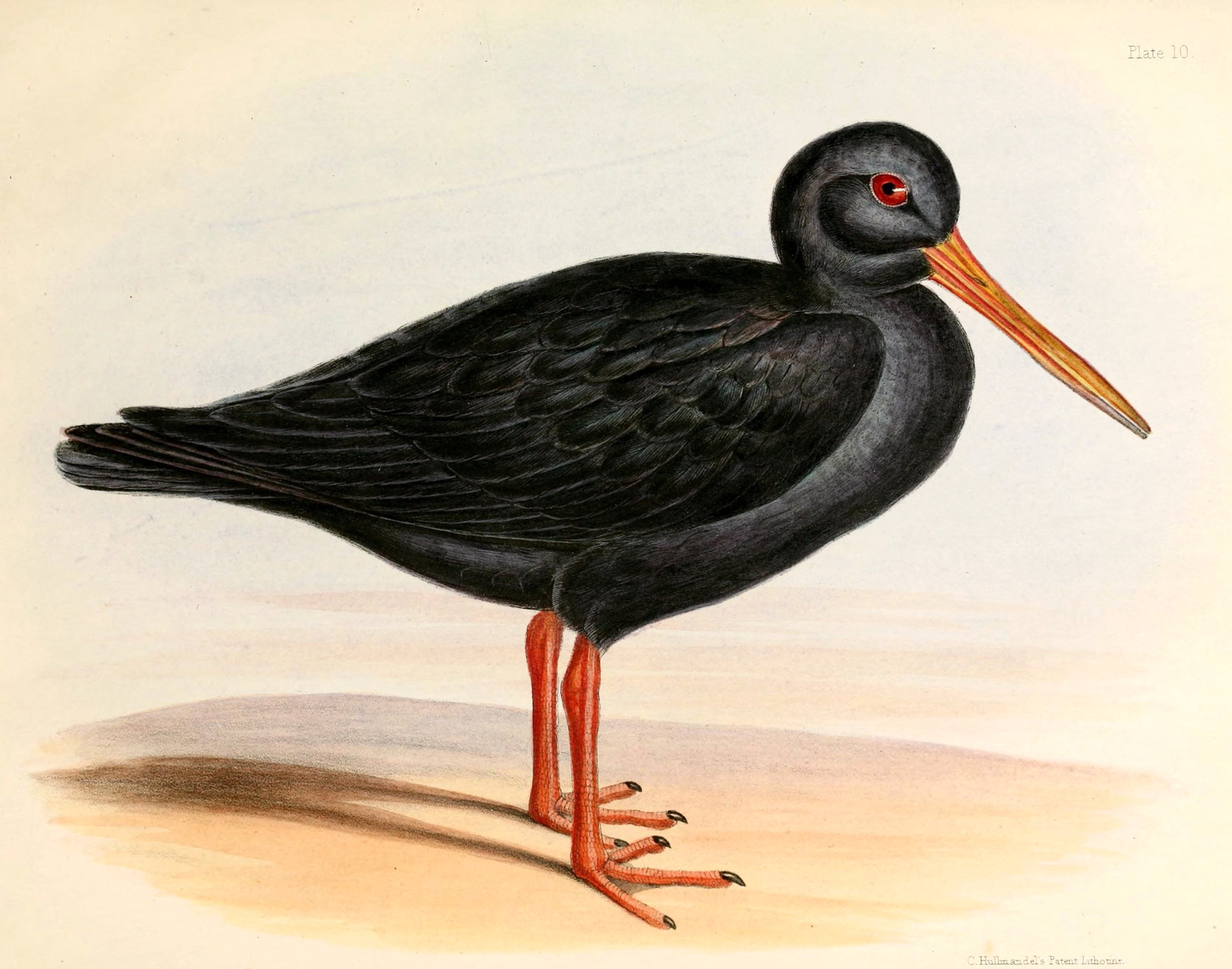 « Haematopus unicolor » = Haematopus unicolor (Variable Oystercatcher)